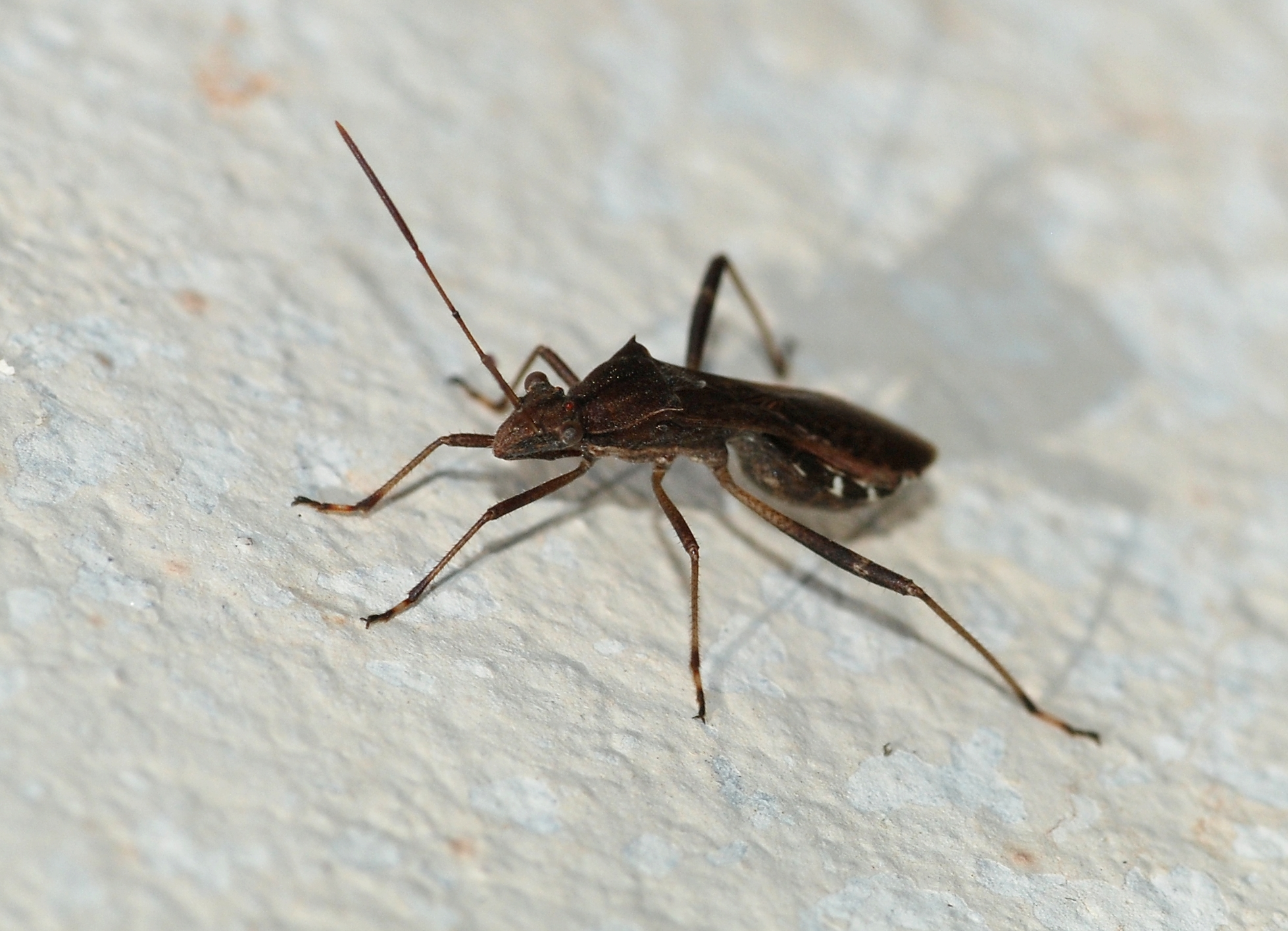 Heteropteran bug from Brazil (Neomegalotomus cf. parvus)